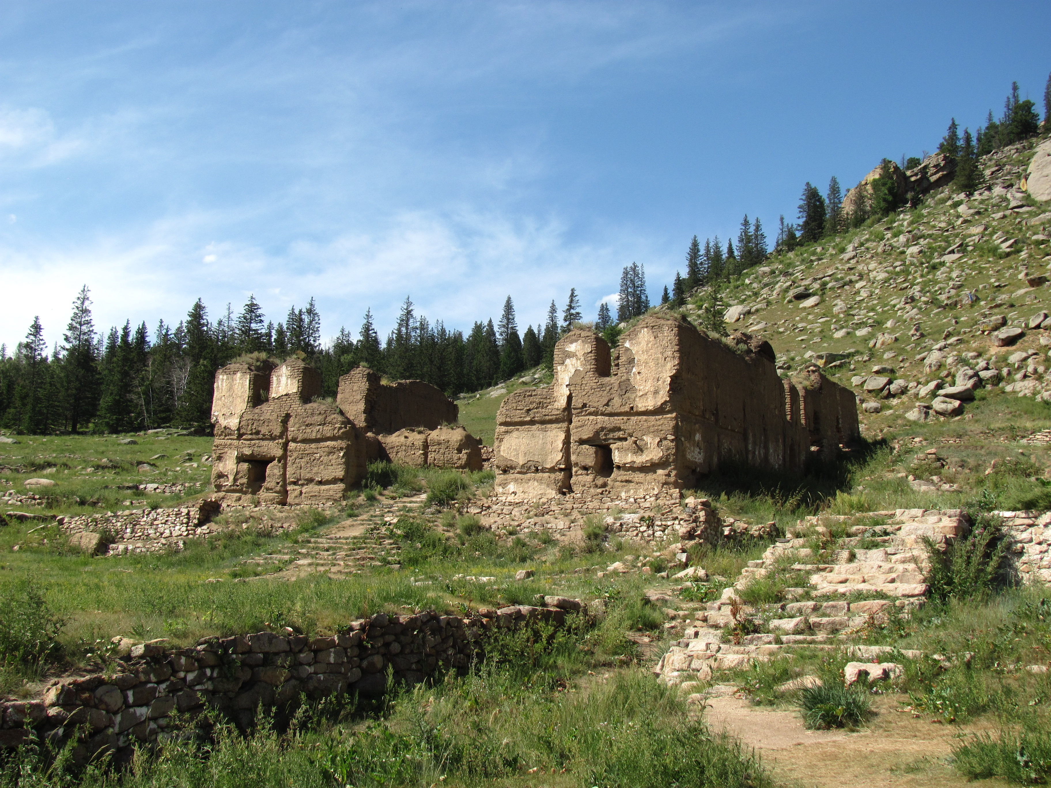 Togchin Temple, Mandzushirin Khiid, Zuunmod, Mongolia.